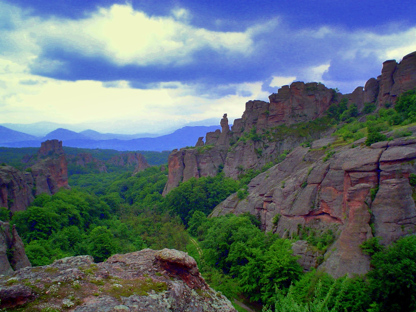 The red creeks at Belogradchik